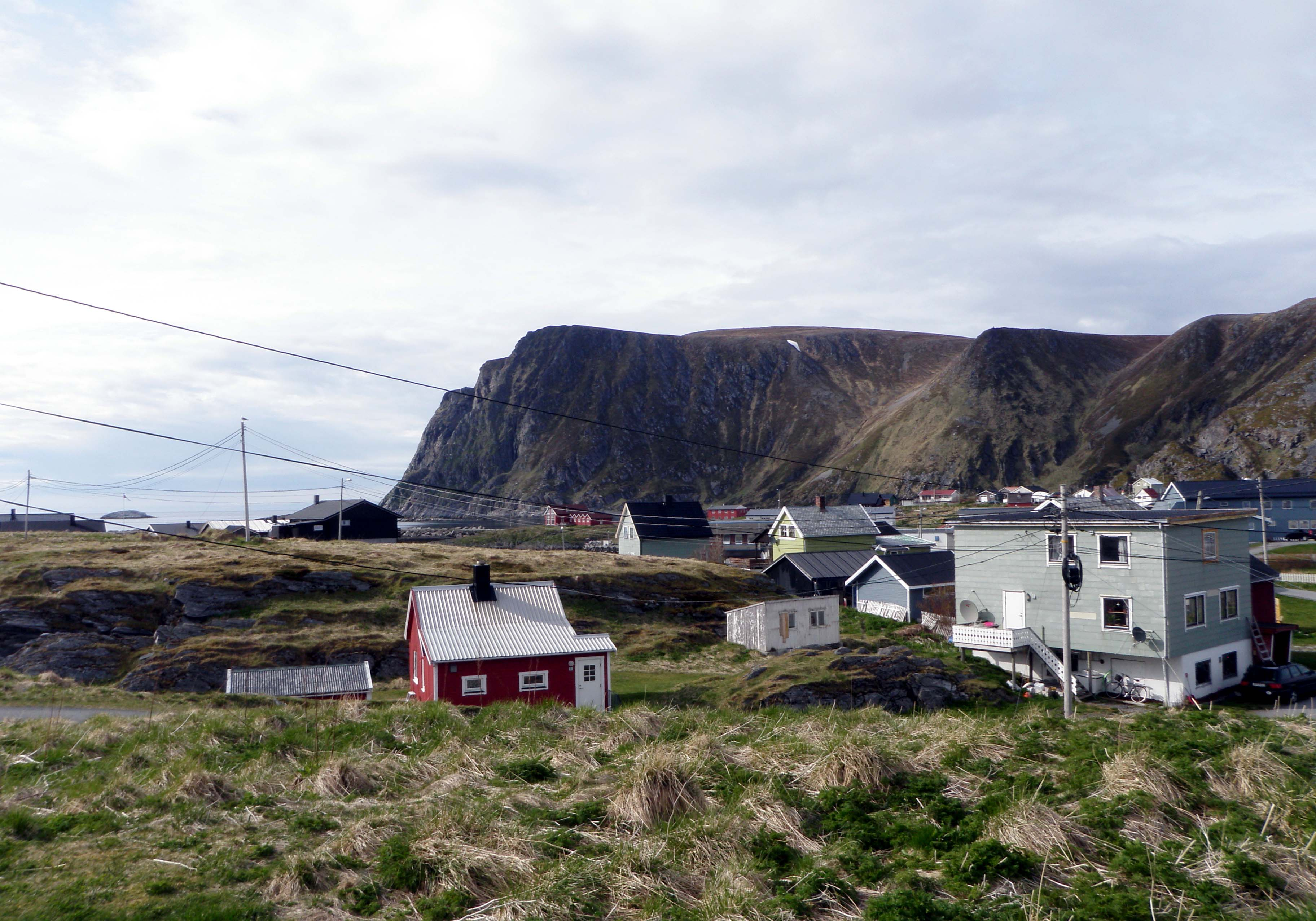 View of the western side of the village of Sørvær, in Hasvik, Finnmark, Norway. Photo taken from Sørvær Chapel.